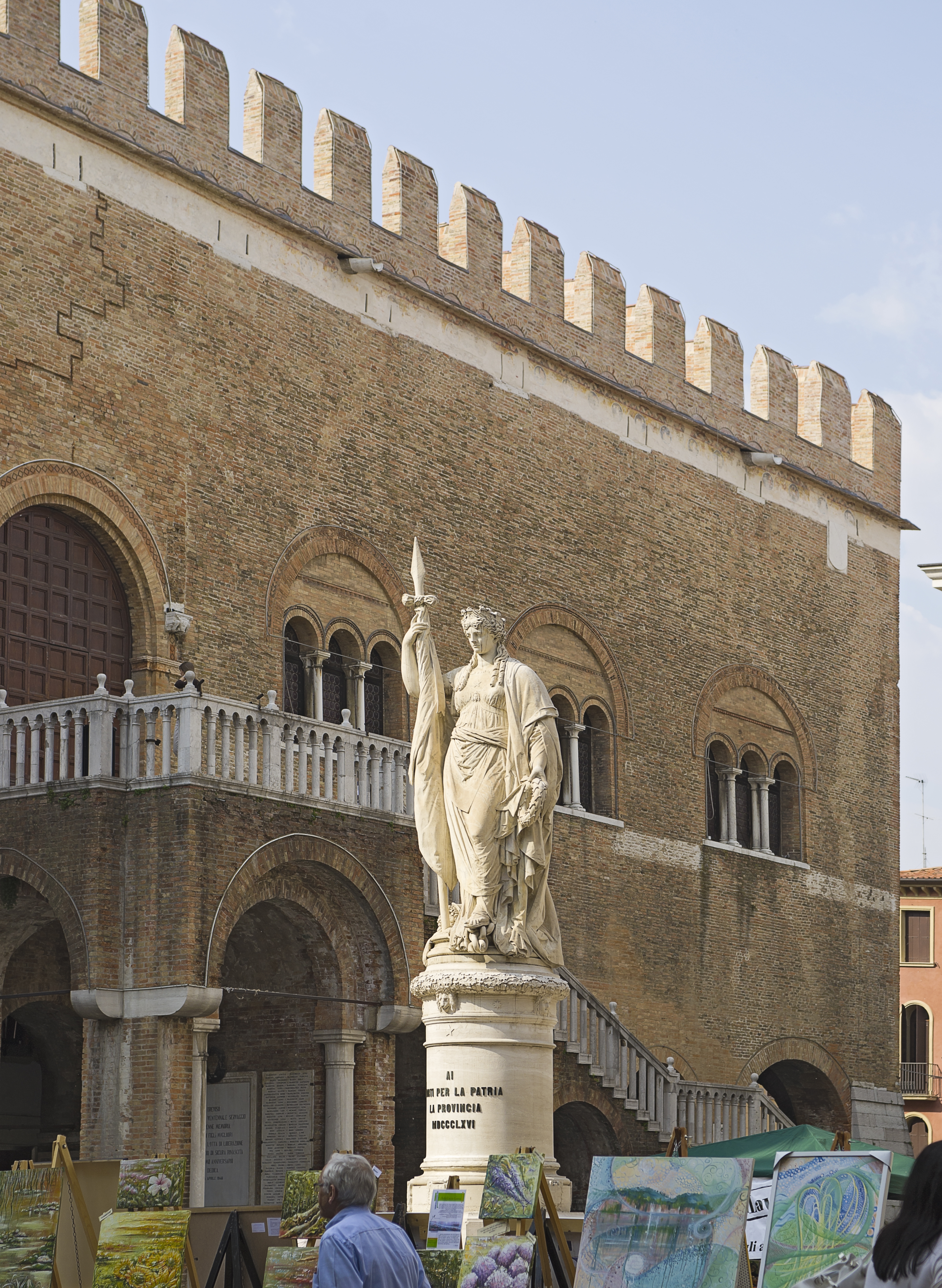 Palazzo dei Trecento of Treviso. Statue of the Motherland from Luigi Borro.